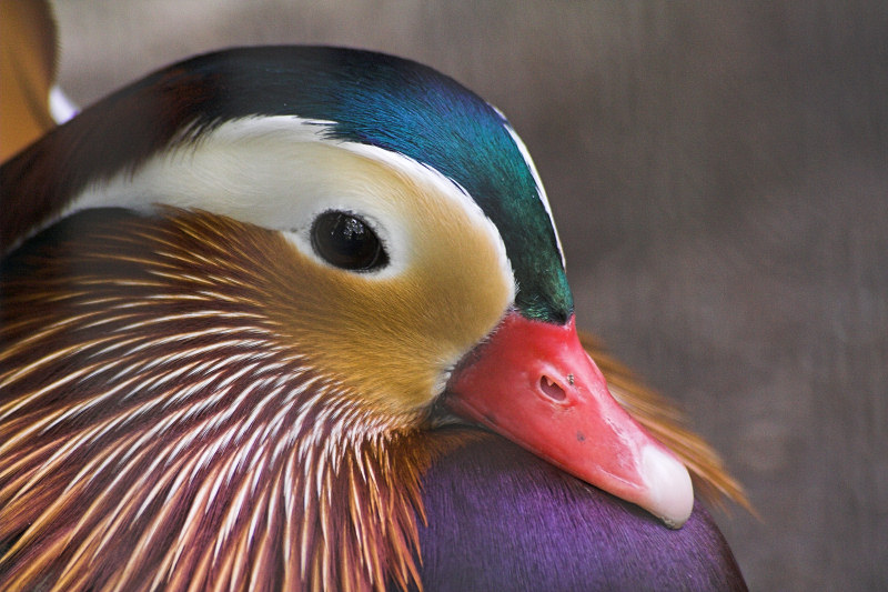 Head of a male Mandarin duck (Aix galericulata) in Japan. (Kiraku ni Torimi)